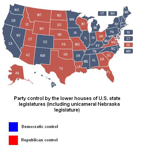 Party control by upper house of U.S. State legislatures